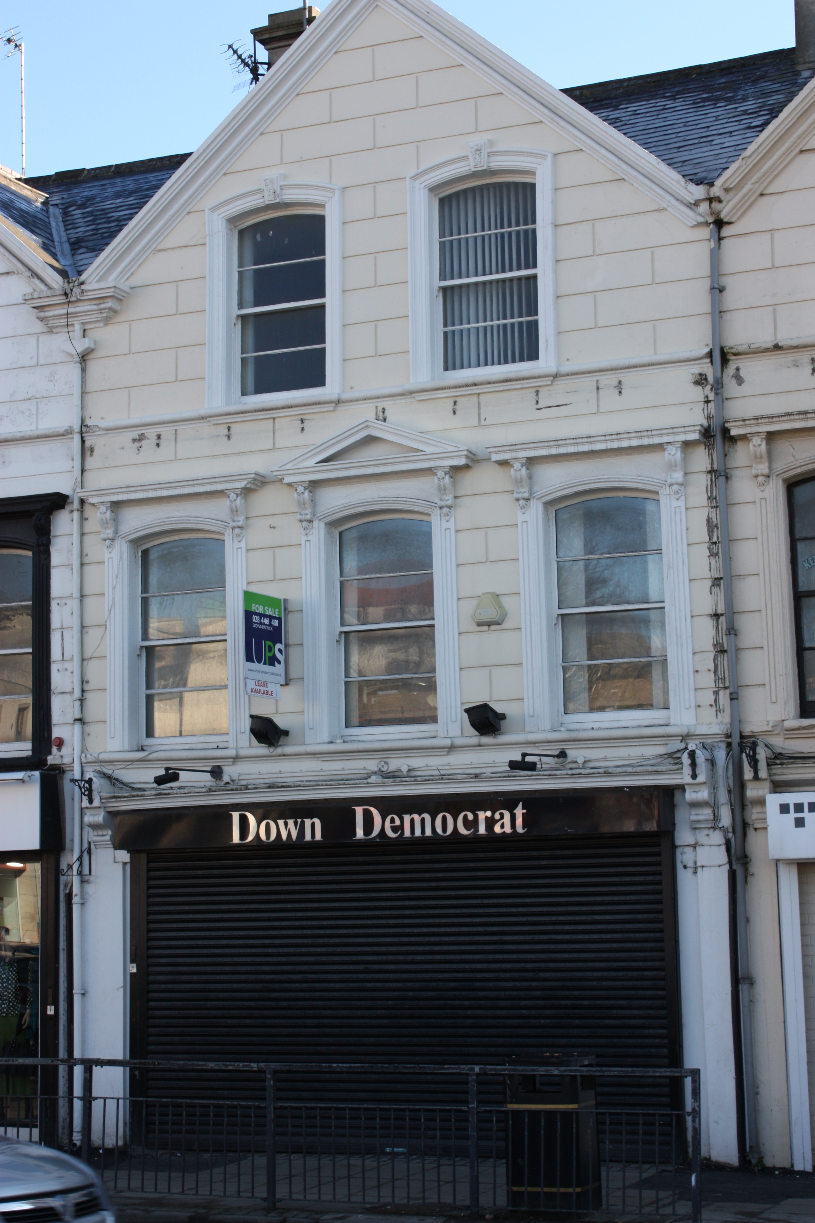 Down Democrat (former local newspaper), Market Street, Downpatrick, County Down, Northern Ireland, February 2010